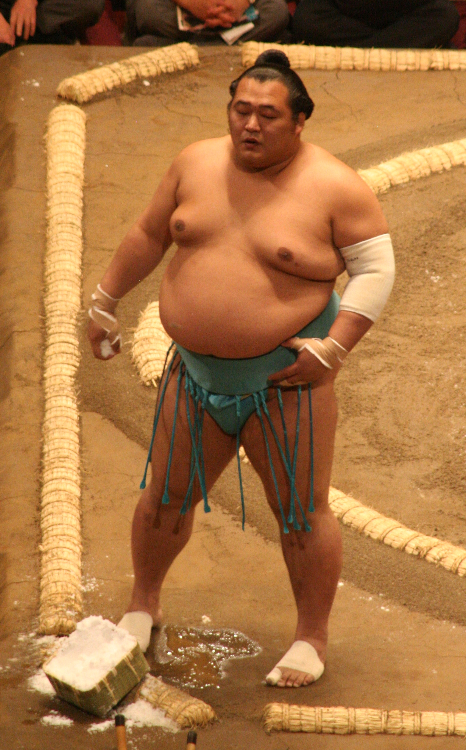 First day of 2009 May Sumo Tournament in Tokyo, Japan - Toyonoshima